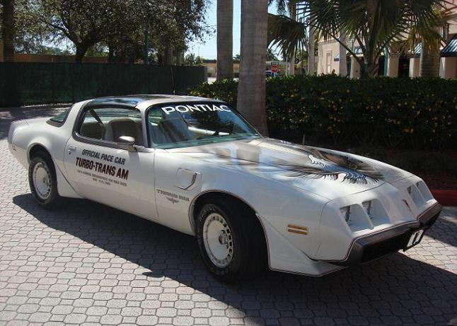 Trans-Am Pace Car Indy 1980